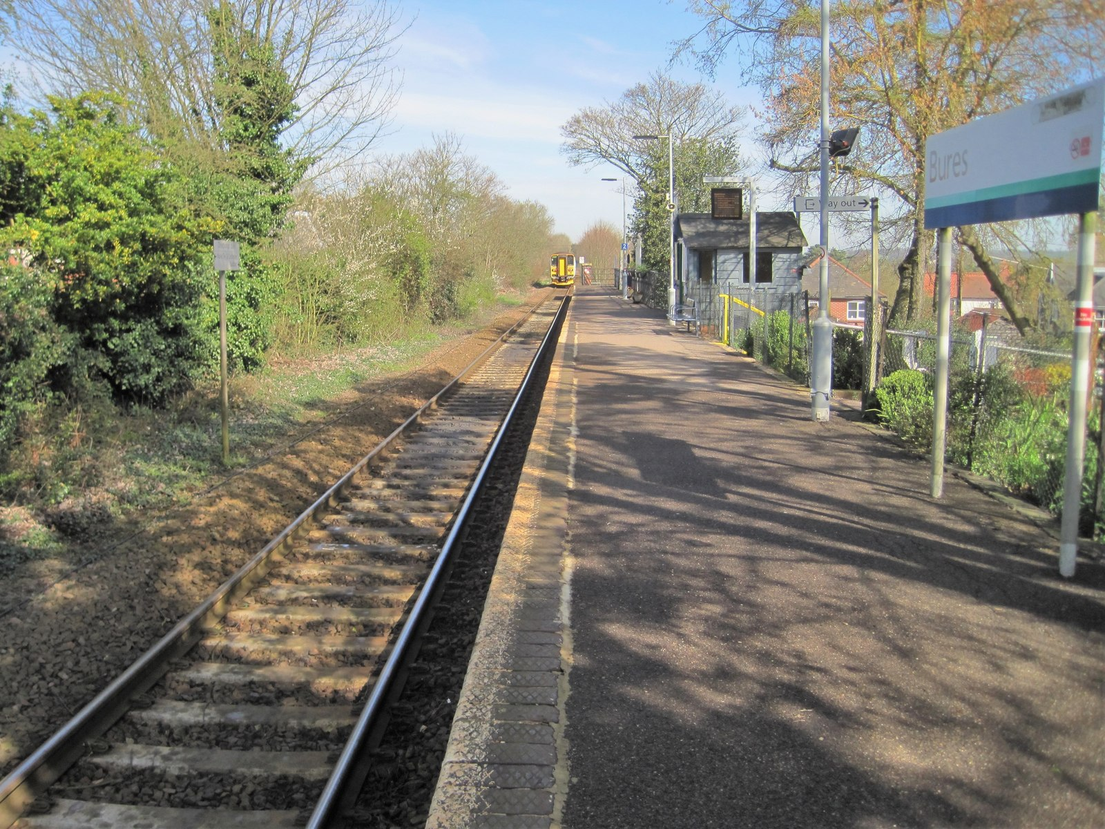 Opened in 1849 by the Eastern Union Railway on the line from Marks Tey to Sudbury. The line was extended to Cambridge in 1865 by the Great Eastern Railway, but cut back to Sudbury again in 1967. View north towards Sudbury. The former northbound track was to the left with the northbound platform being located to the left of where the train is situated.